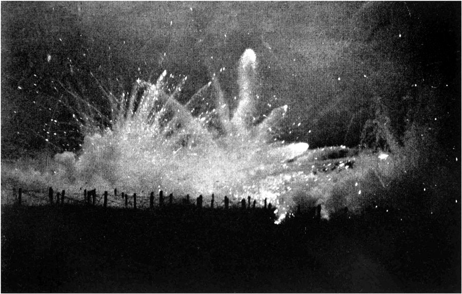 Nighttime photo of German barrage of Allied trenches at Ypres. (Probably 2nd Battle of Ypres.)